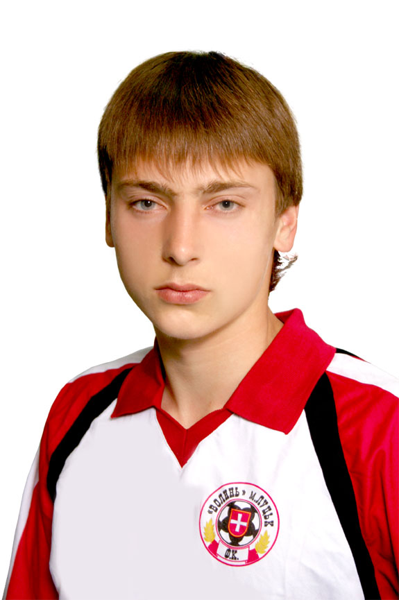 Yevhen Pavlov, forward of FC Volyn Lutsk